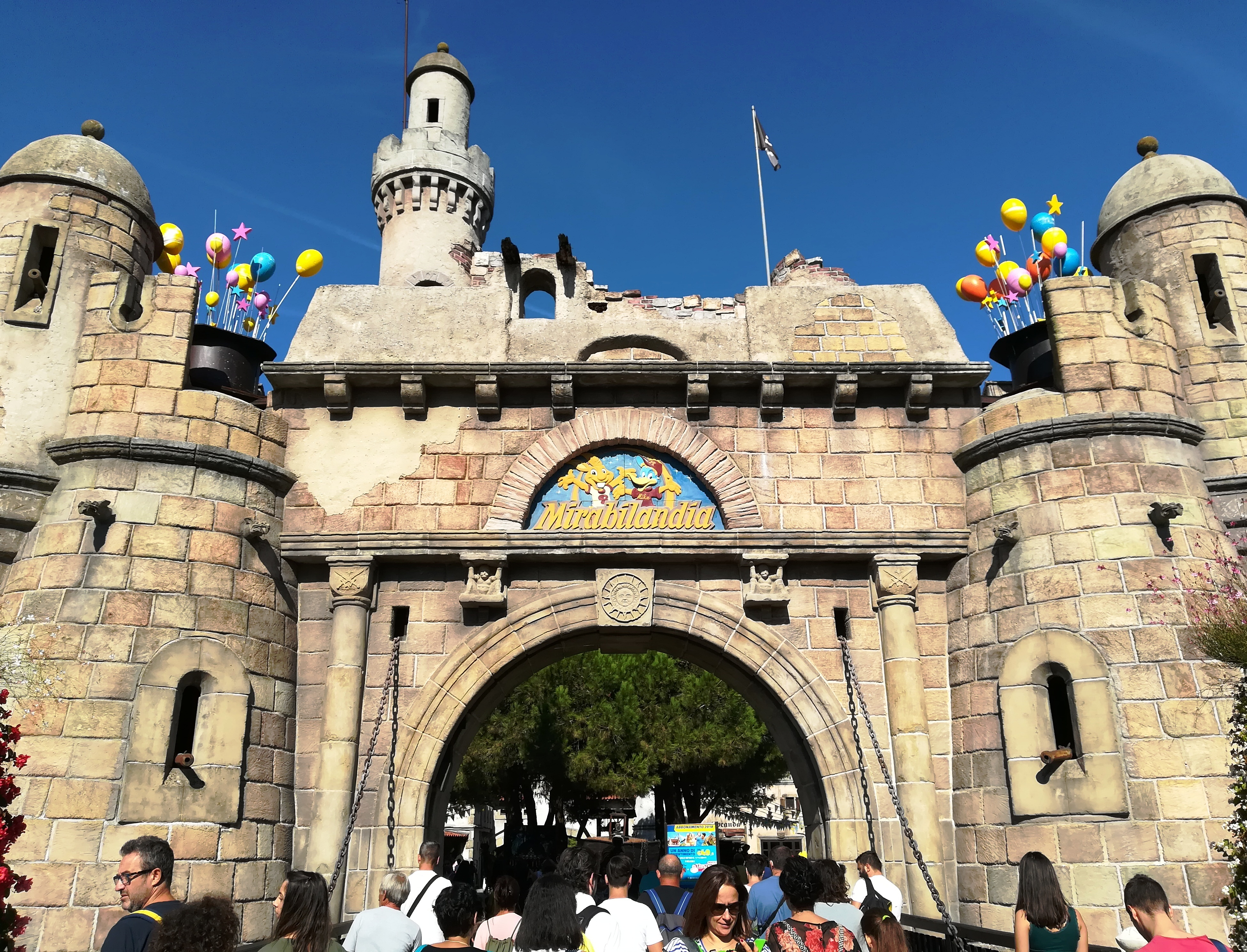 Mirabilandia